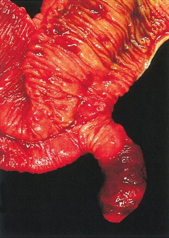 Photograph of a Meckel's Diverticulum